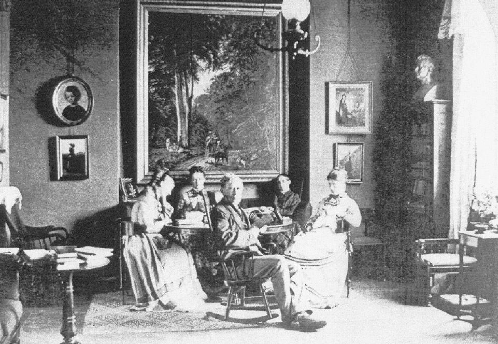 Interior from the manor house Iselingen at Vordingborg, Denmark. P. C, Skovgaard's painting Bøgeskov i Maj which was painted on the estate can be seen in the picture.